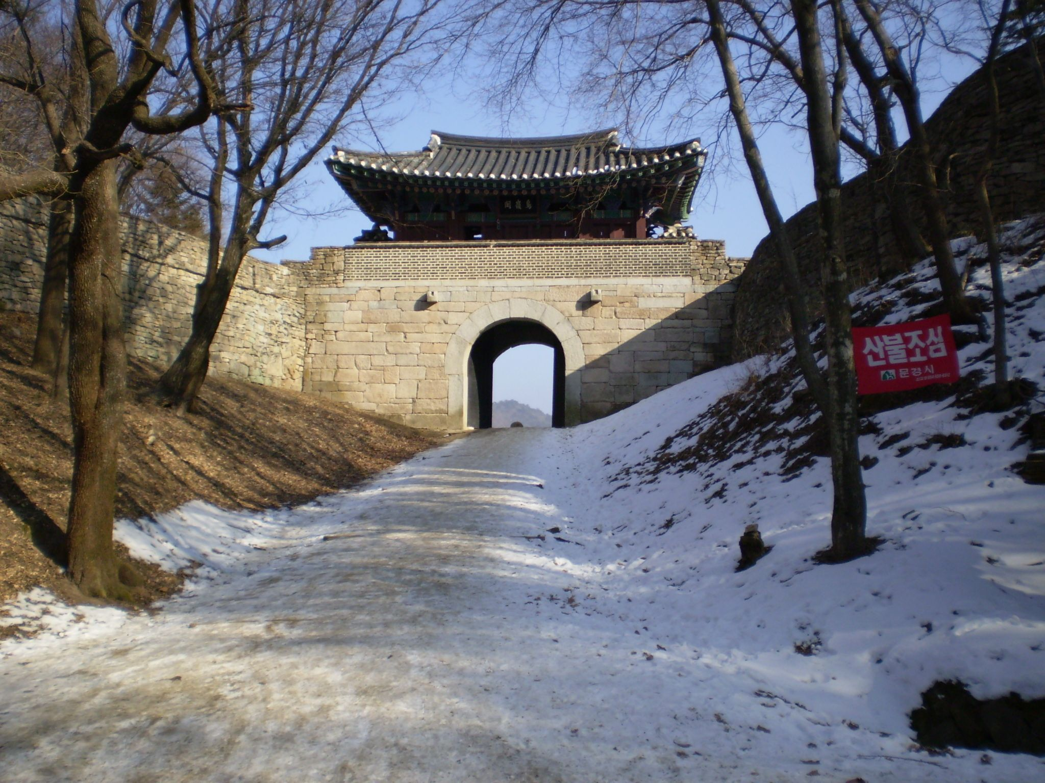 The third gate of Mungyeong Saejae, as viewed from the Chungcheong side.